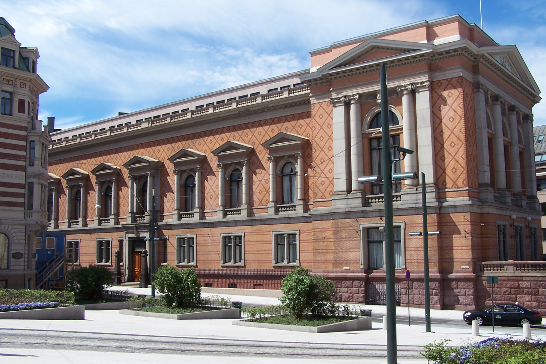 Main lodge of Den norske Frimurerorden (Norwegian Order of Free Masons),Oslo